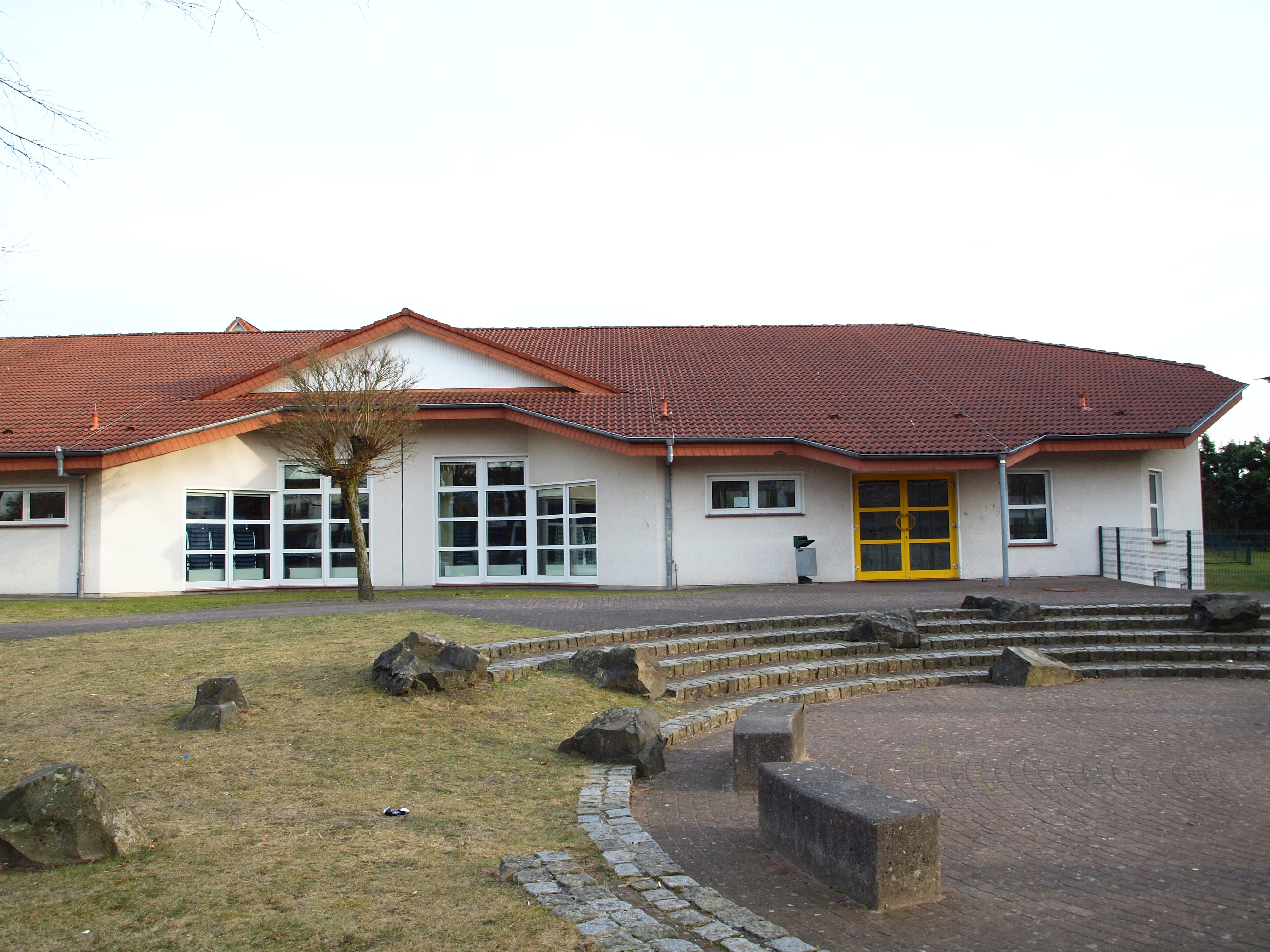 The town house in Schlangen